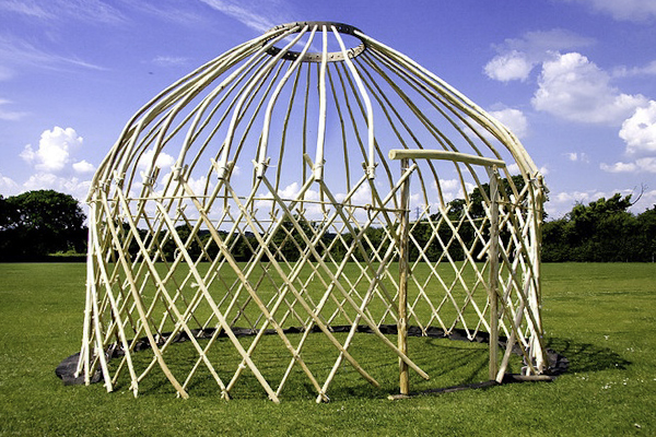 Frame of a Kazakh Yurt